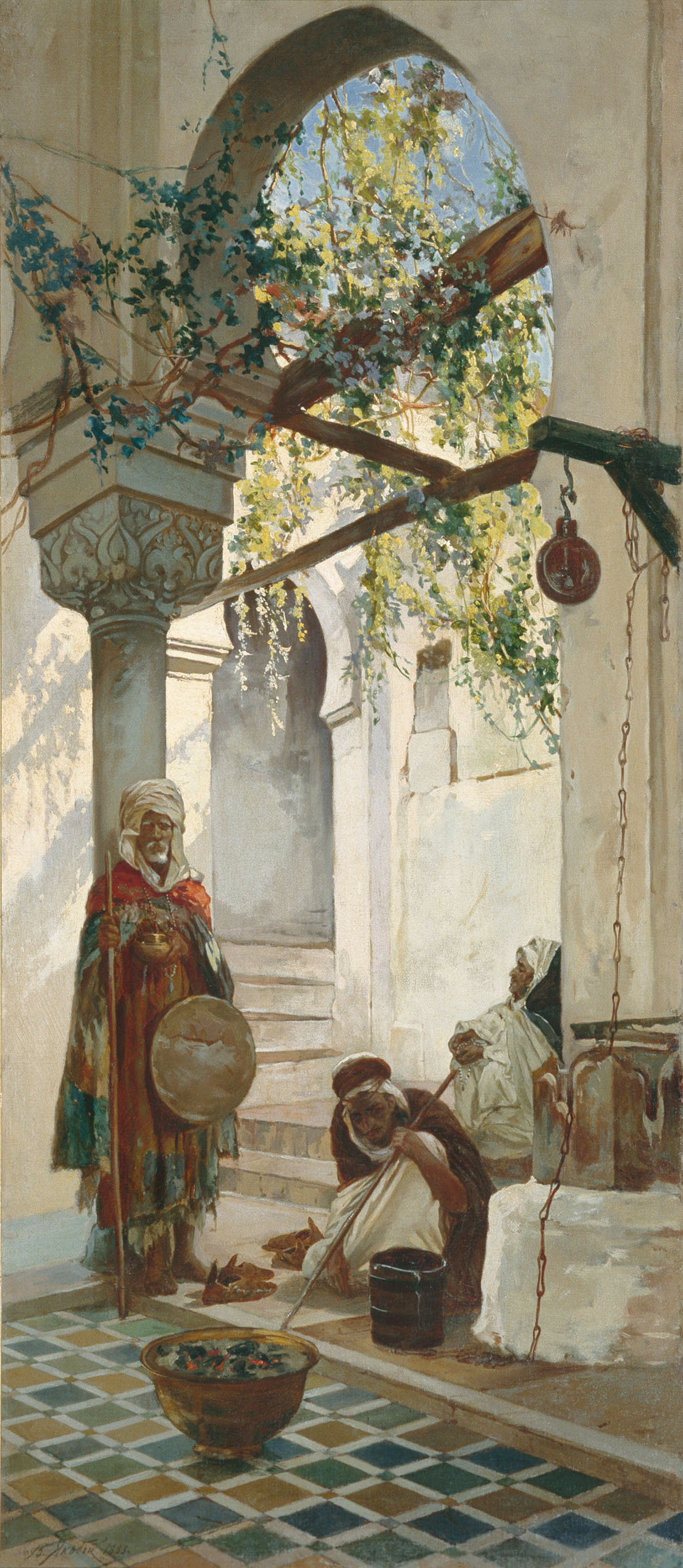 Entrance to a mosque